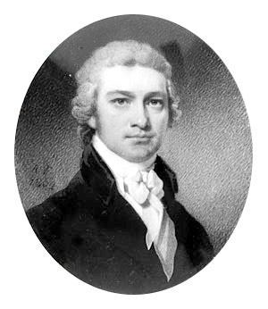 Charles Goldsborough, Governor and Congressman from Maryland.